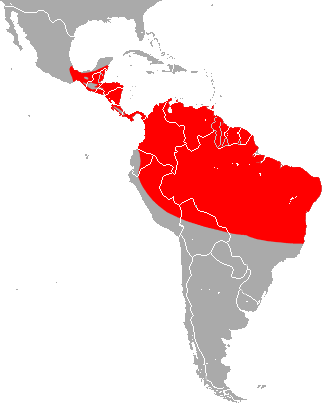 Proboscis Bat (Rhynchonycteris naso) range